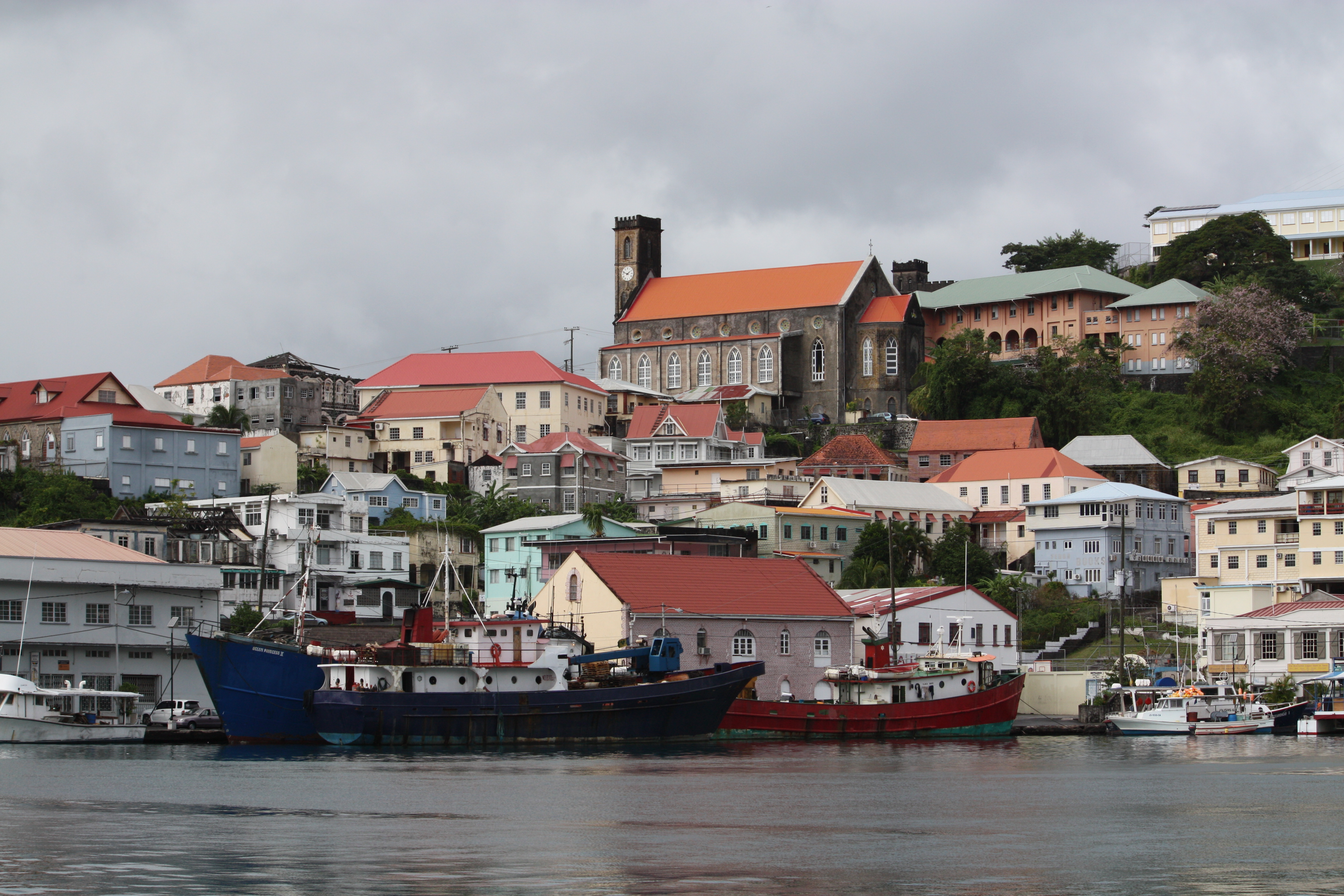 Townscape of St. George's, Grenada: In the middle Cathedral of the Immaculate Conception and to the left of it the roofless House of Parliament which was damaged by Hurricane Ivan in 2004.